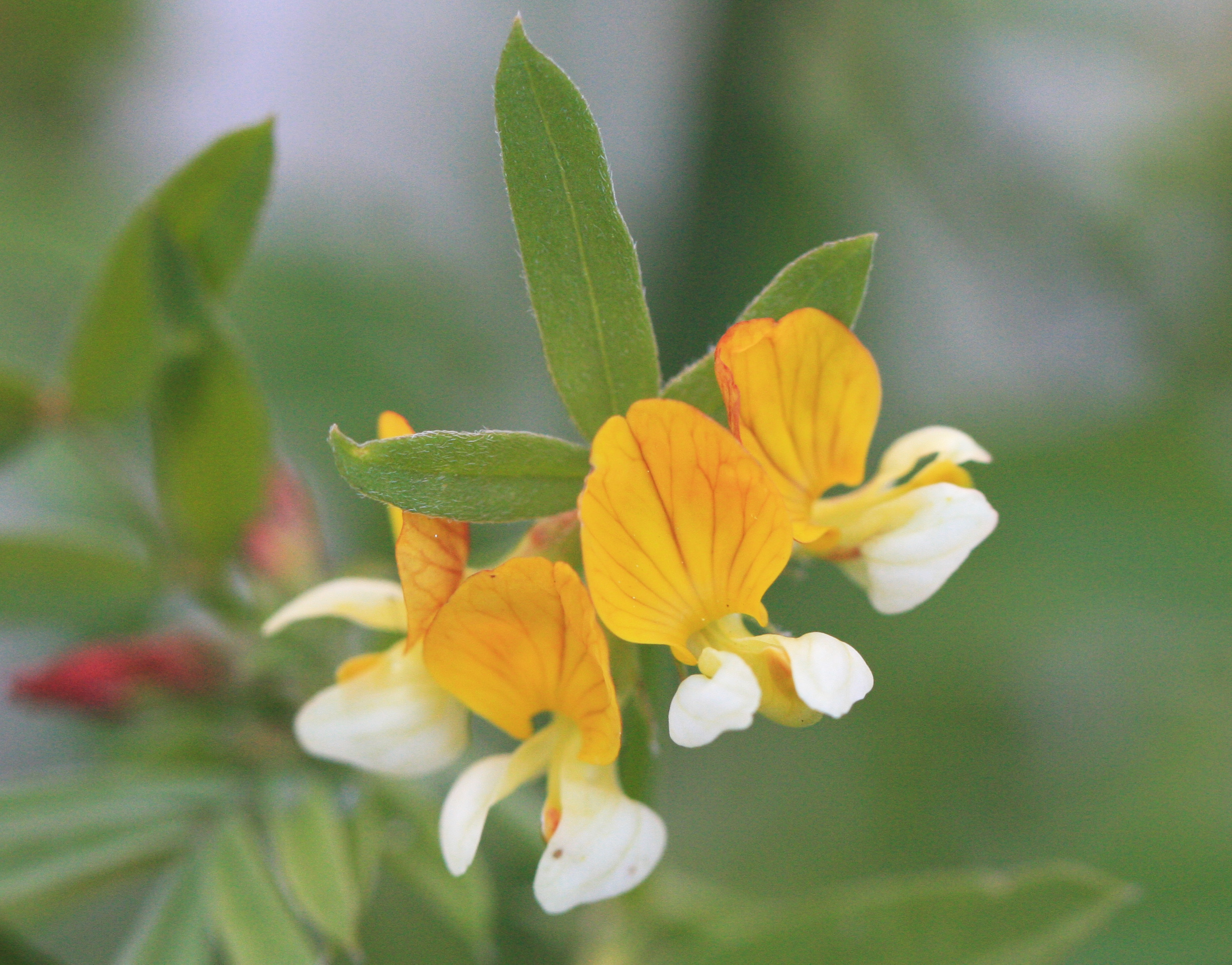 Meadow lotus (Lotus oblongifolius), or deer vetch or Torrey's lotus, closeup of flower. At 6600ft along Lower Rock Creek, Mono County, California.